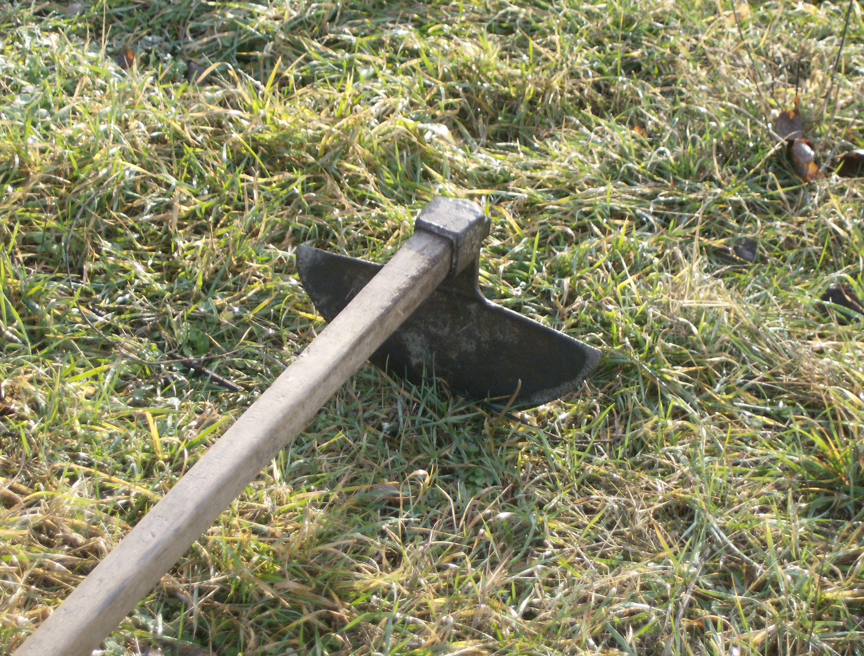 Hoe (tool)